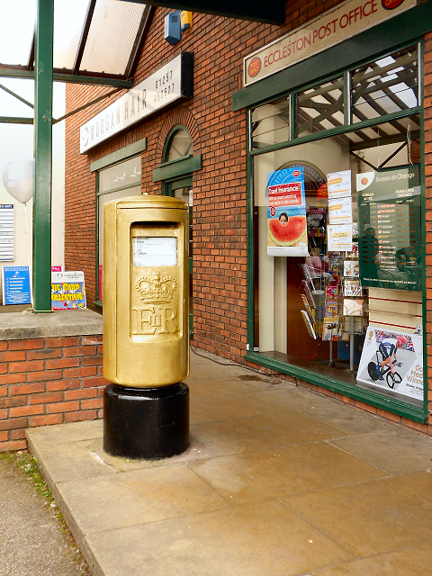 Gold Post Box, Eccleston Post Office. Royal Mail celebrated Bradley Wiggins� Olympic gold medal win in the men�s cycling road race, by painting two post boxes gold; one opposite Chorley Town Hall on Market Street and this one, outside the post office at the Eccleston... more